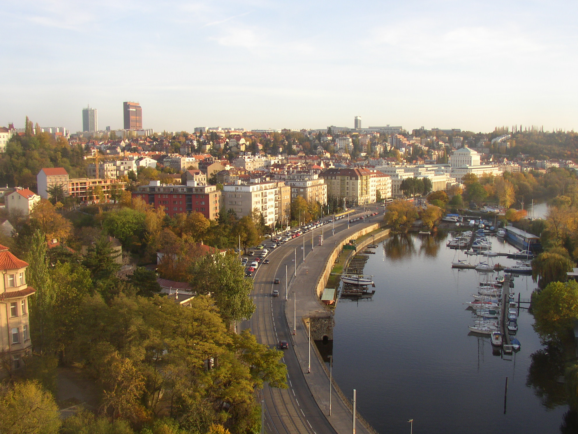 Prague district of Podolí as seen from Vyšehrad.